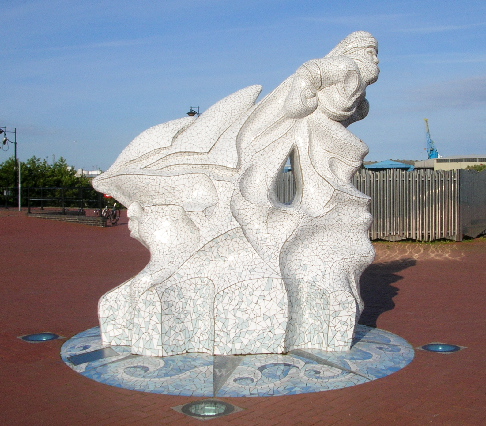 The Antarctic 100 memorial, Cardiff Bay, Wales. A sculpture by Jonathan Williams to commemorate the 100th anniversary of the Age of Antarctic Discovery. It depicts Captain Scott, the British Antarctic explorer.[1]